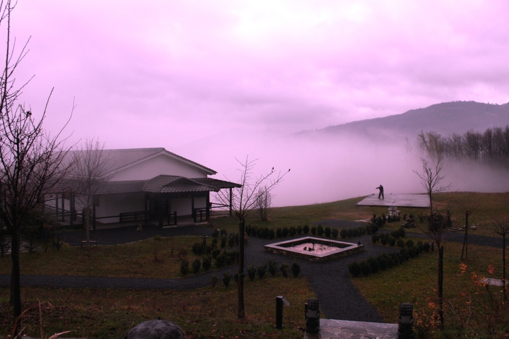 Un immagine del chiostro, su cui si affaccia lo Zendo di Sanboji